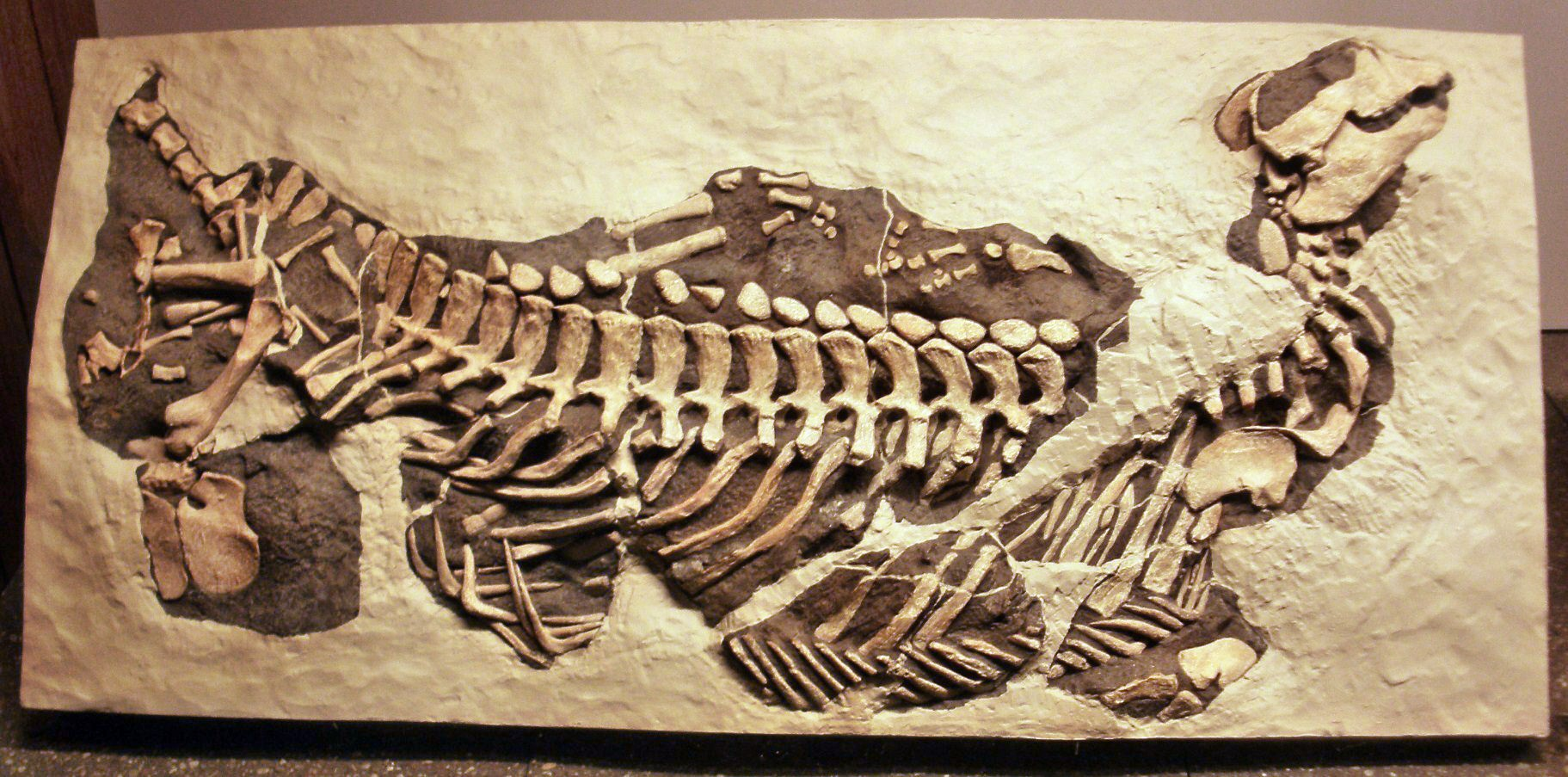 Fossil of Placodus, an extinct placodont- Took the photo at Senckenberg Museum of Frankfurt